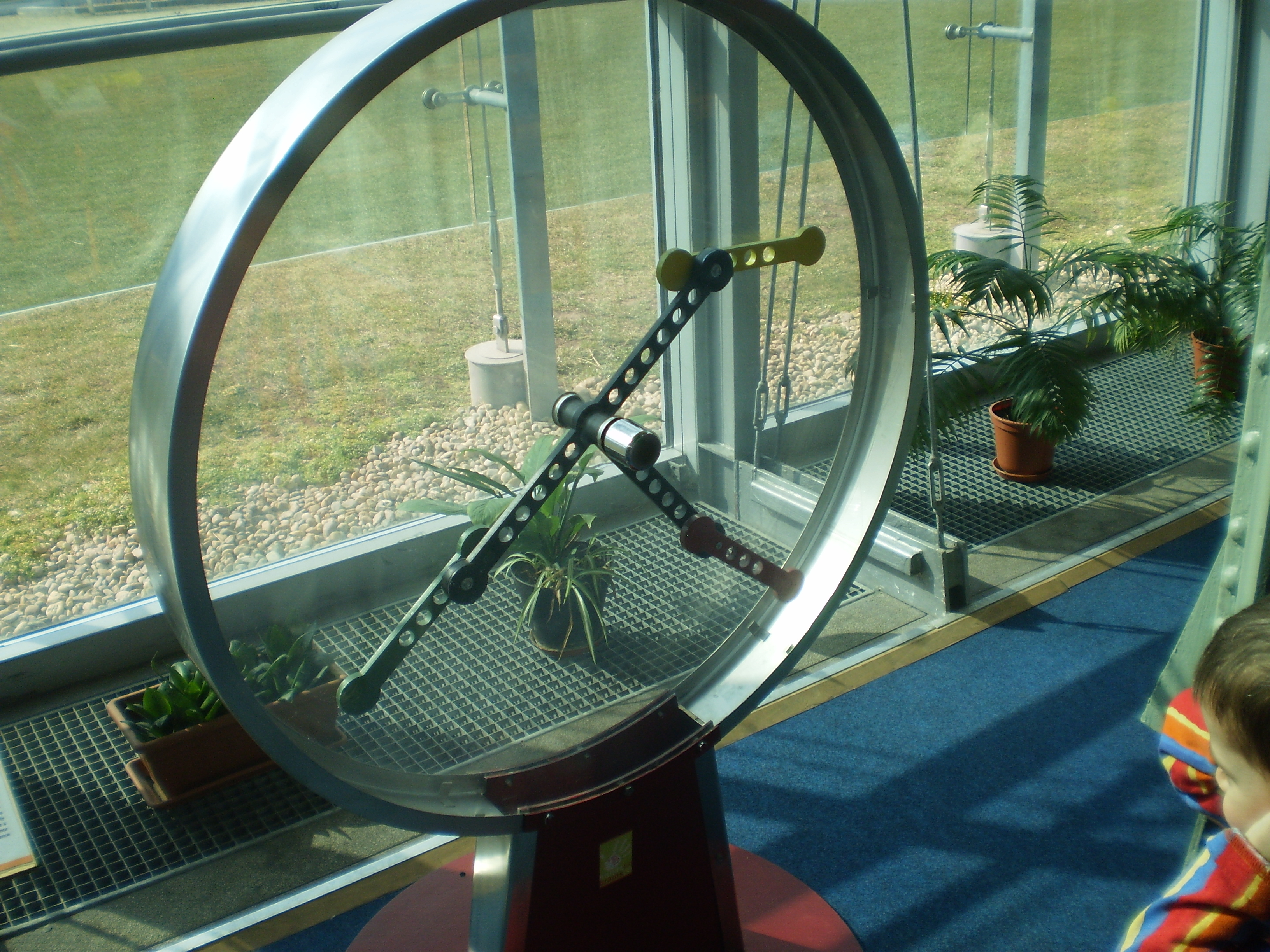 Chaotic motion of a simple mechanism